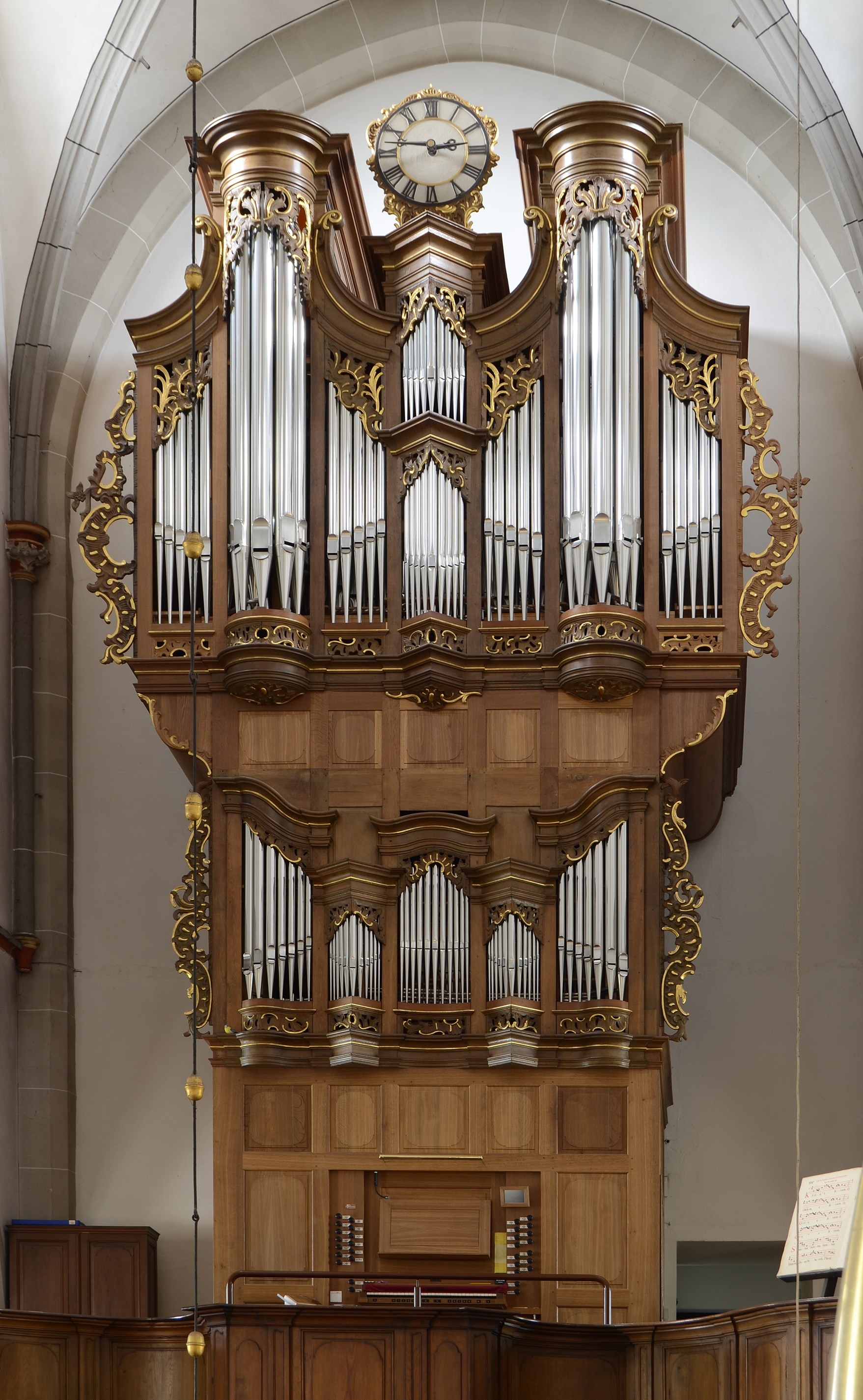 Rheinberg (North Rhine-Westphalia, Germany) – Catholic Saint Peter Church – pipe organ – historic organ front (1769) This image shows a heritage building in Germany, located in the North Rhine-Westphalian city Rheinberg (no. 79). This photograph was taken with a Nikon D7000